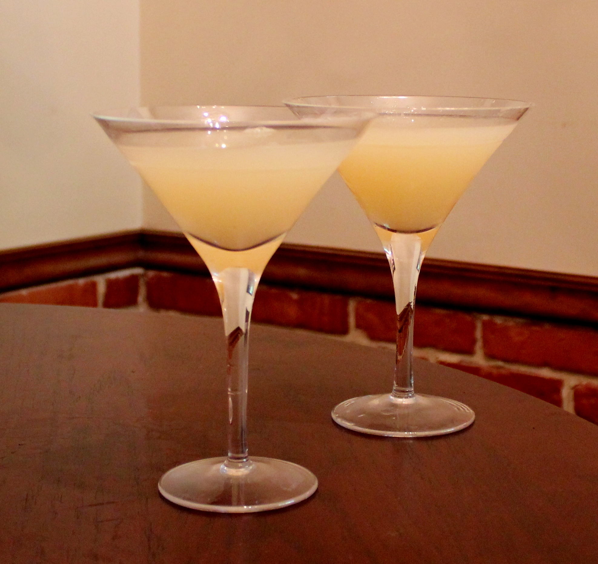 Greyhound Cocktail recipe available at